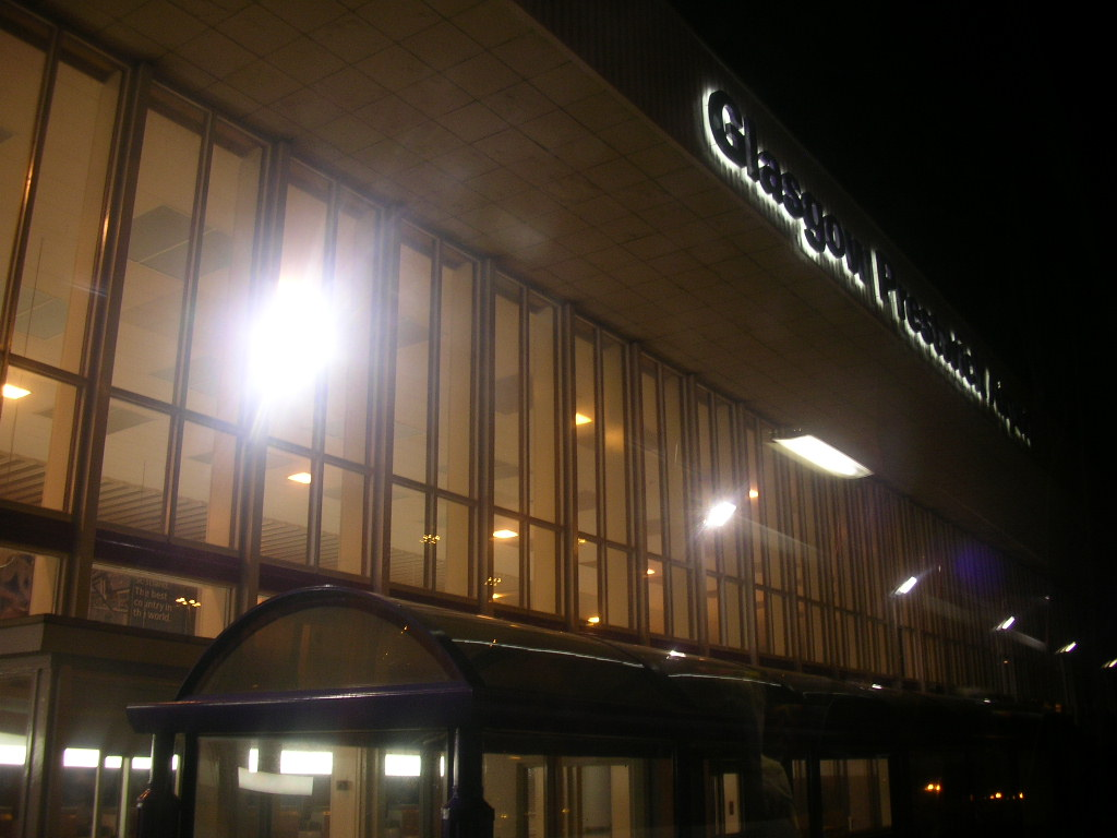 Prestwick Airport terminal in night